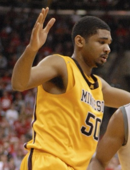 Evan Turner of Ohio State drives past Ralph Sampson III of Minnesota in a college basketball match.